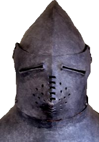 Bascinet)